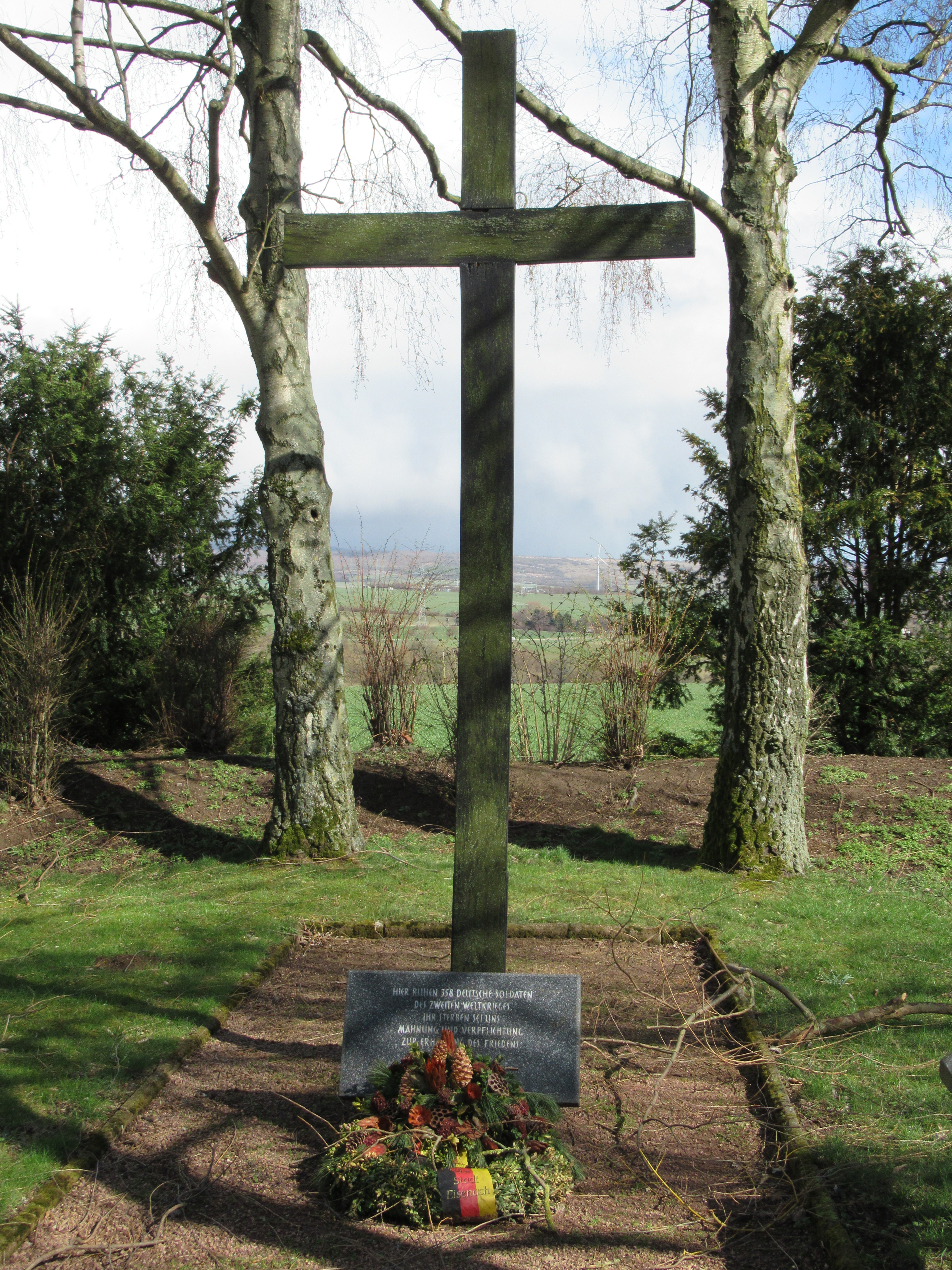 Eisenach Hötzelsroda Soldiers Cemetery 1945